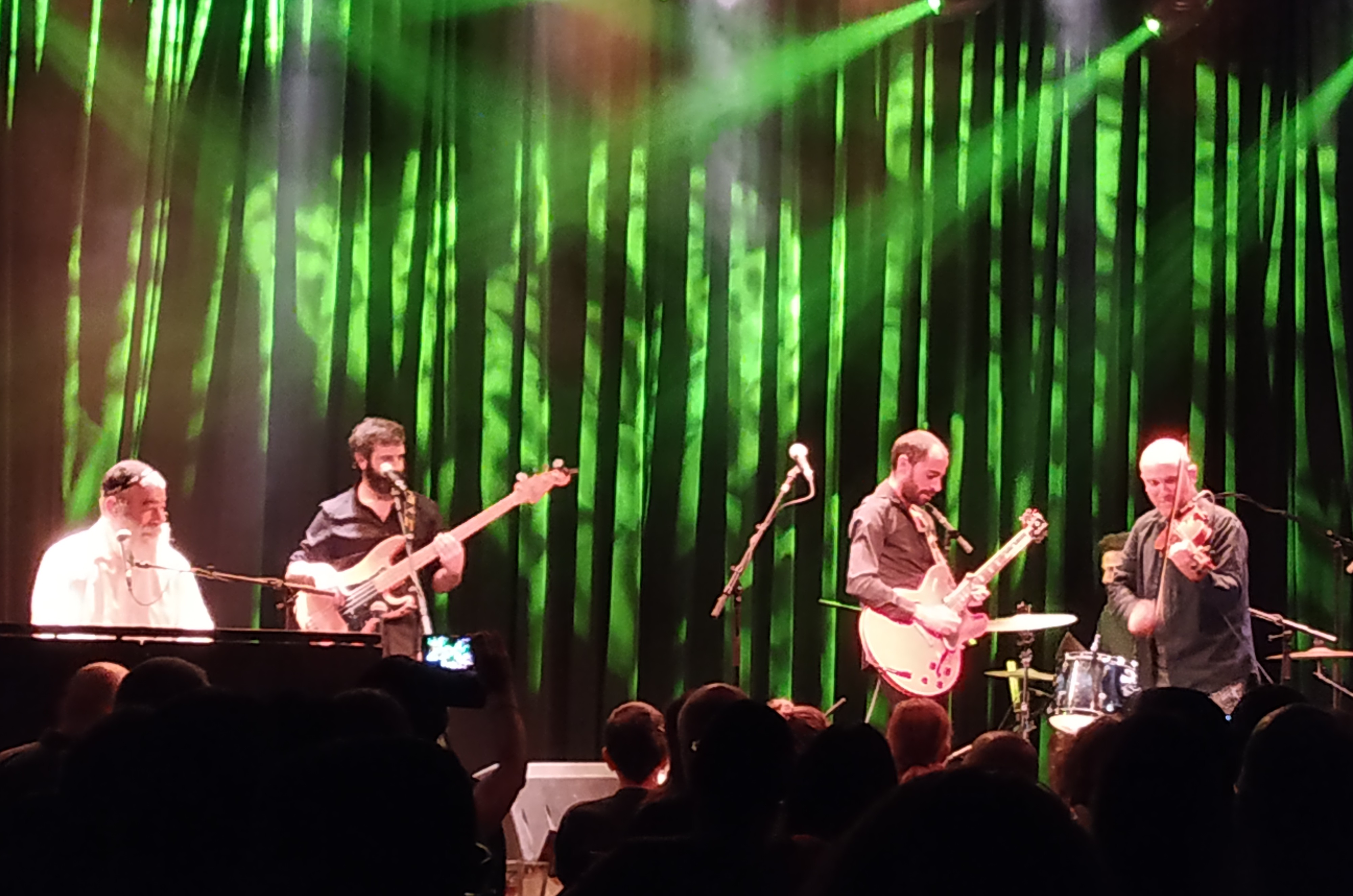 Ariel Zilber at Zappa Herzliya